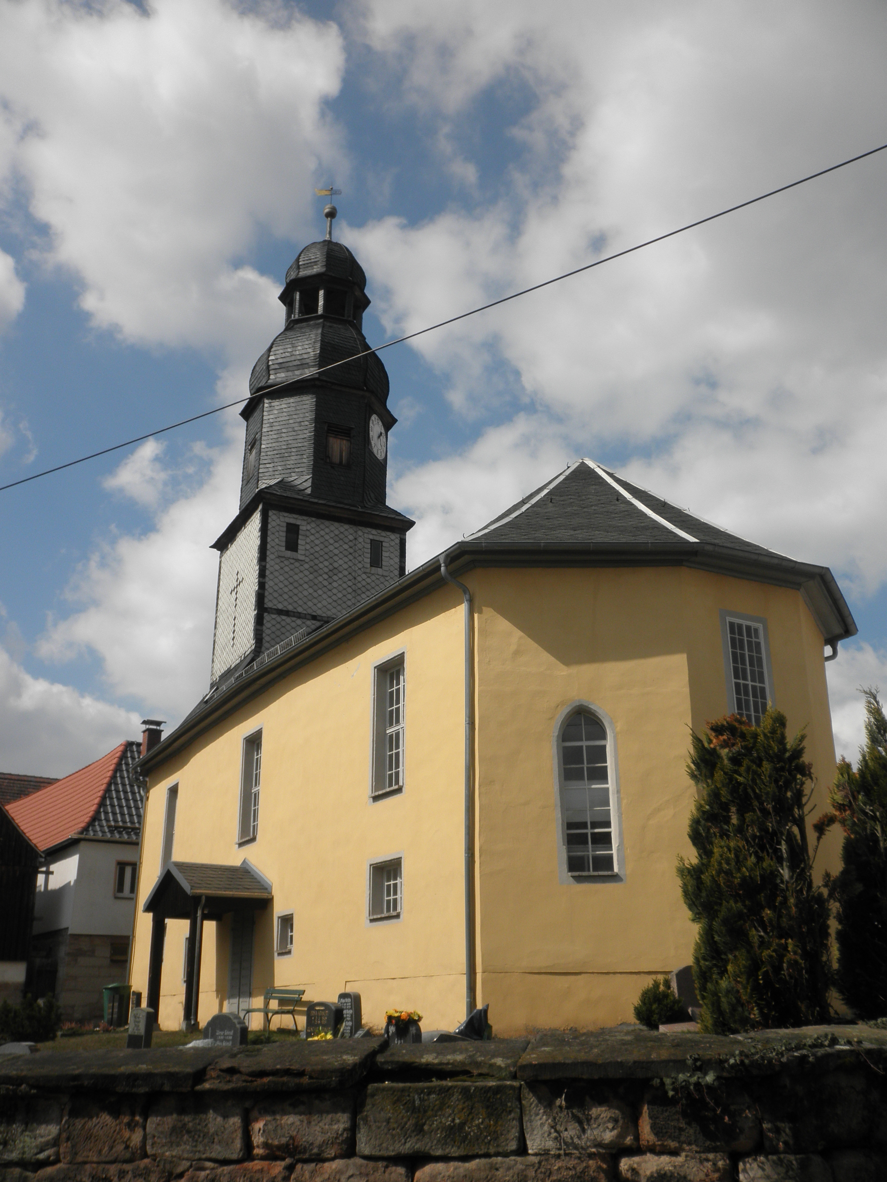 Church in Seitenroda in Thuringia